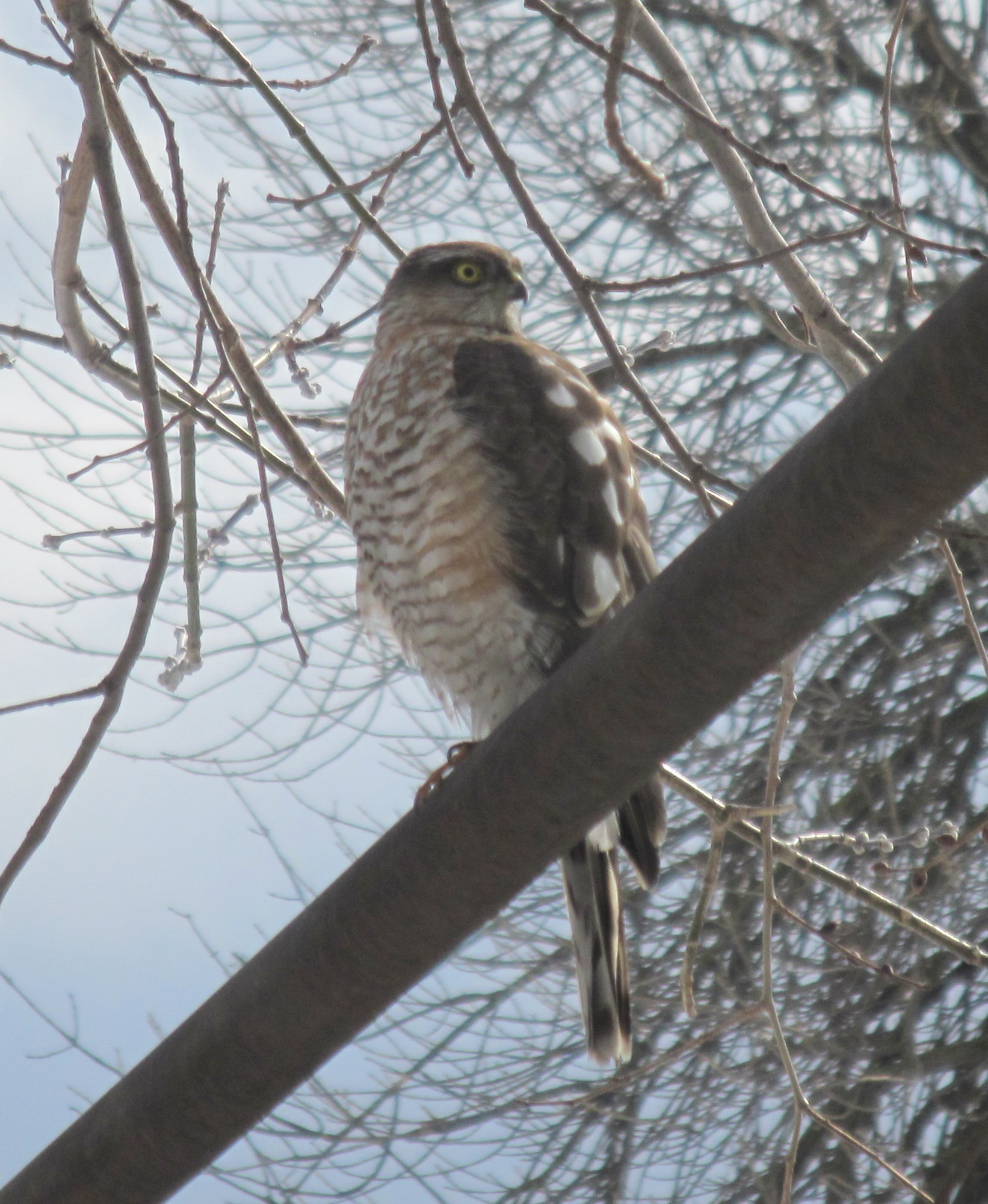 Eurasian Sparrowhawk